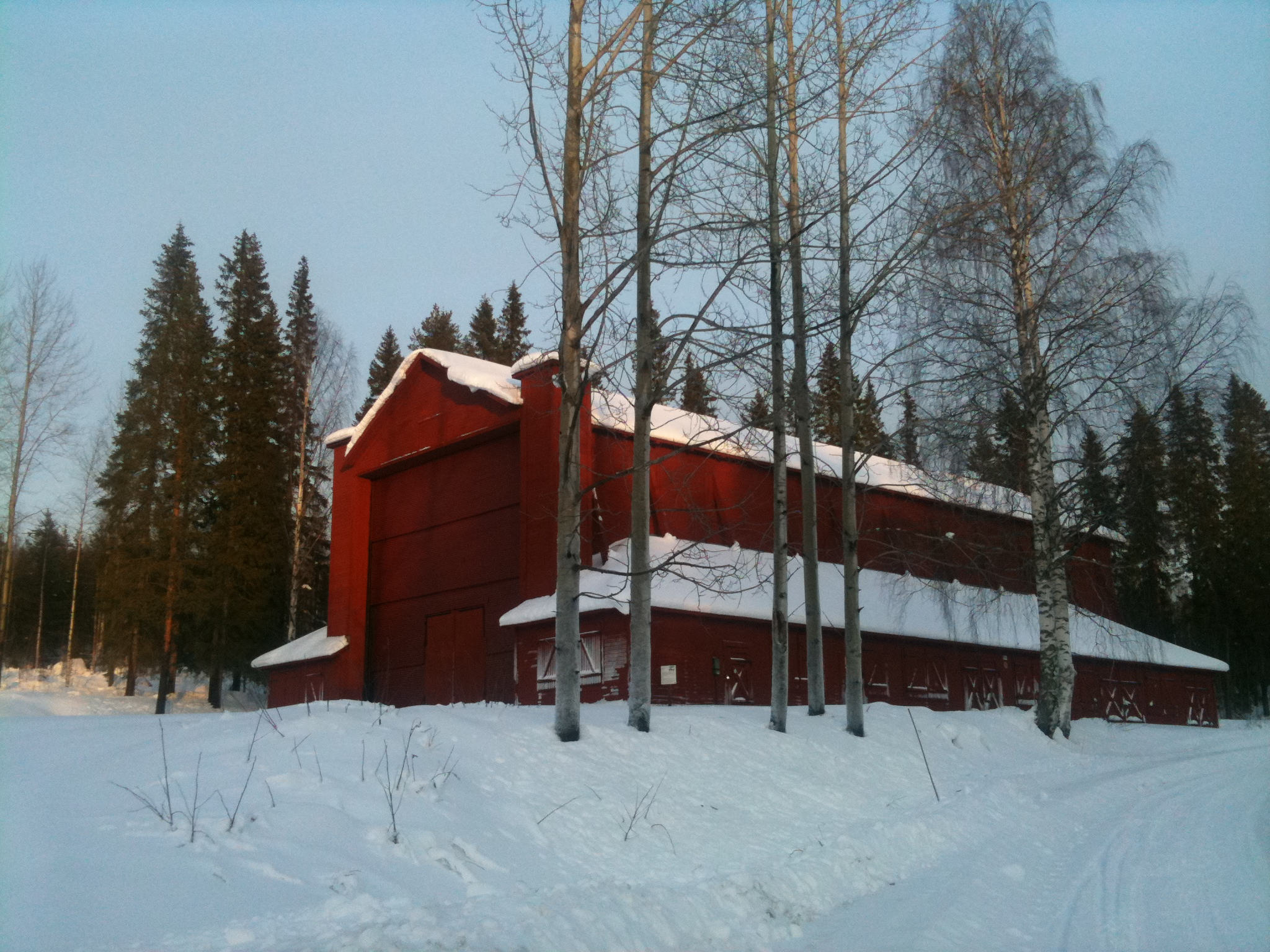 The balloon hangar (Swedish: Ballonghallen) of the Boden fortress photographed in 2011.